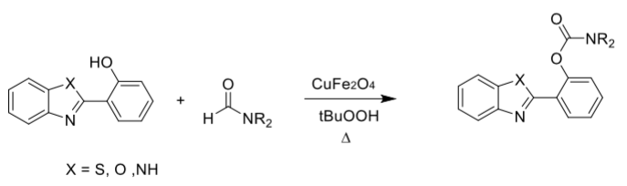 Coupling reaction of ortho-arylated phenols and dialkylformamides. Adapted from the article - Tetrahedron Letters, 2017. 58(34): p. 3370-3373